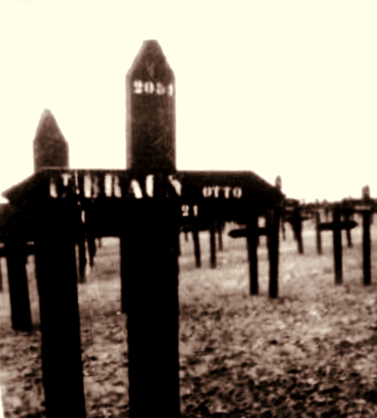 Grave cross for the poet Otto Braun (1897-1918), at last Lieutenant and ordnance officer, awarded as Knight of the Iron Cross. His funeral took place in 1918 at the German military cemetery of Bayonvillers in the Départment Sommes, France. Later he was reburied and found his last rest on the parental estate in Erlenweg in Zehlendorf near Berlin. The grave with grave monument is preserved to this day. Today the place is part of the municipality of Kleinmachnow.